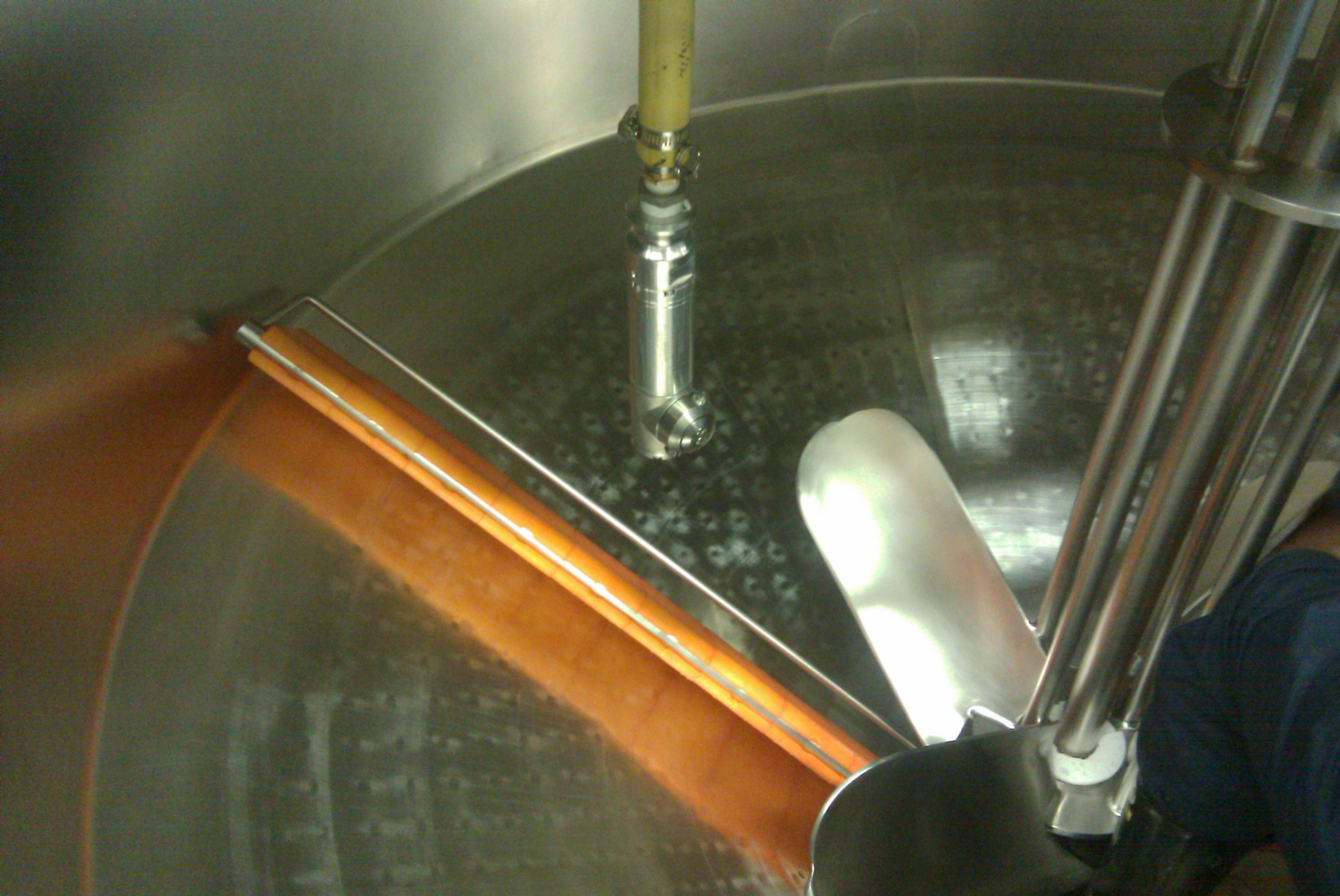 Alfa Laval Gamajet device after cleaning ketchup tank